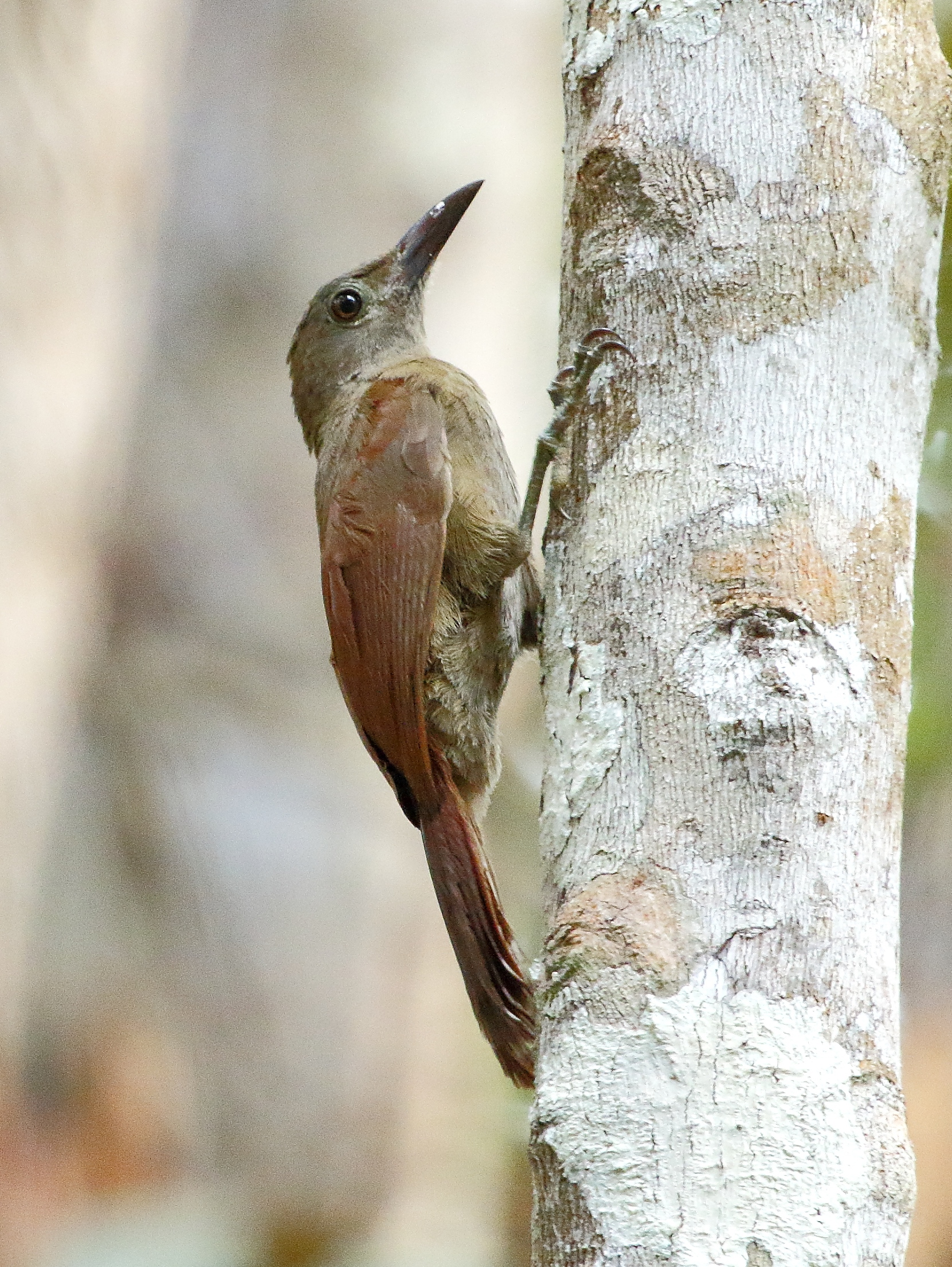 Brigida's woodcreeper; Serra dos Carajás, Pará, Brazil